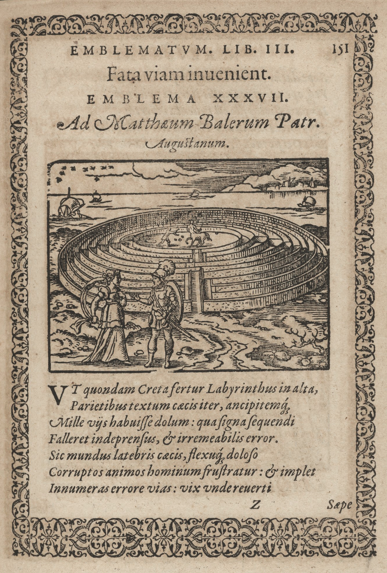 Page from Emblemata, 1581, by Nikolaus Reusner (1545-1602). “Fata viam invenient” [Fate shall show the way] *60-474, Houghton Library, Harvard University